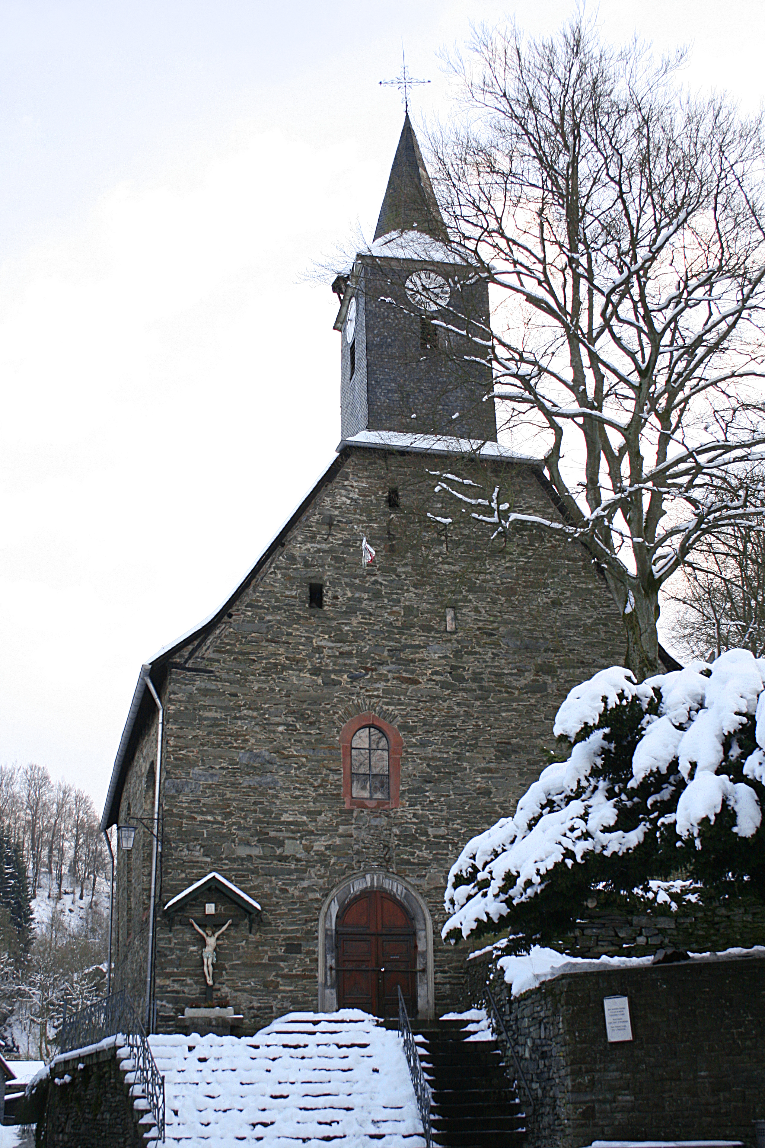 Monschau (Germany), Kirchstraße – The church.